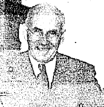 Floyd Cleveland Wilcox, president of Shimer College from 1930 to 1935, in 1942 when he was an administrator at University of Redlands.